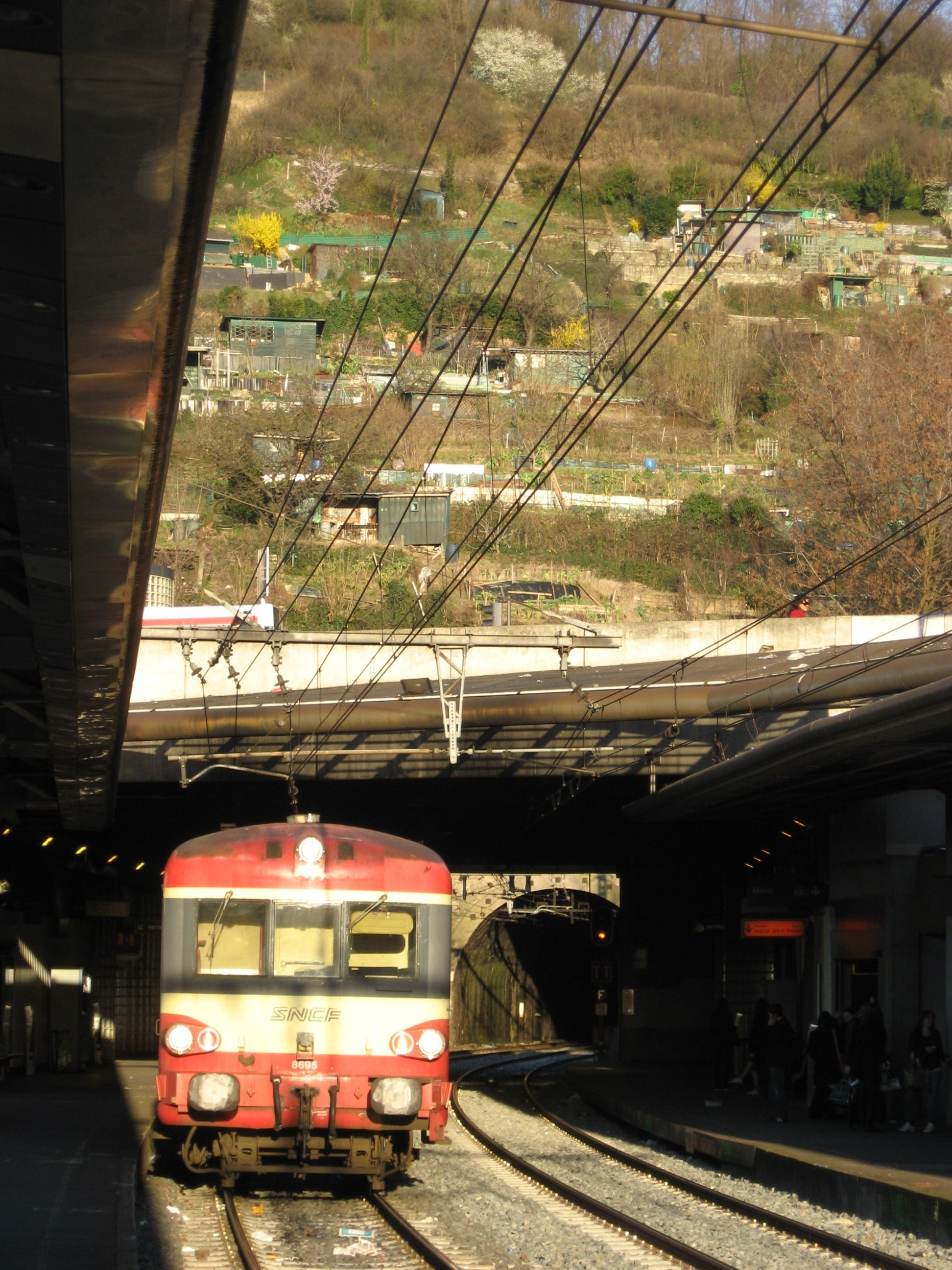 Local train station "Gorge de Loup" on the Westside off Lyon. The line is electrified but the overhead is not used. The line goes in a tunnel under the hill and terminates at St Paul station.